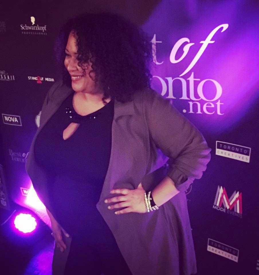 Kim Roberts